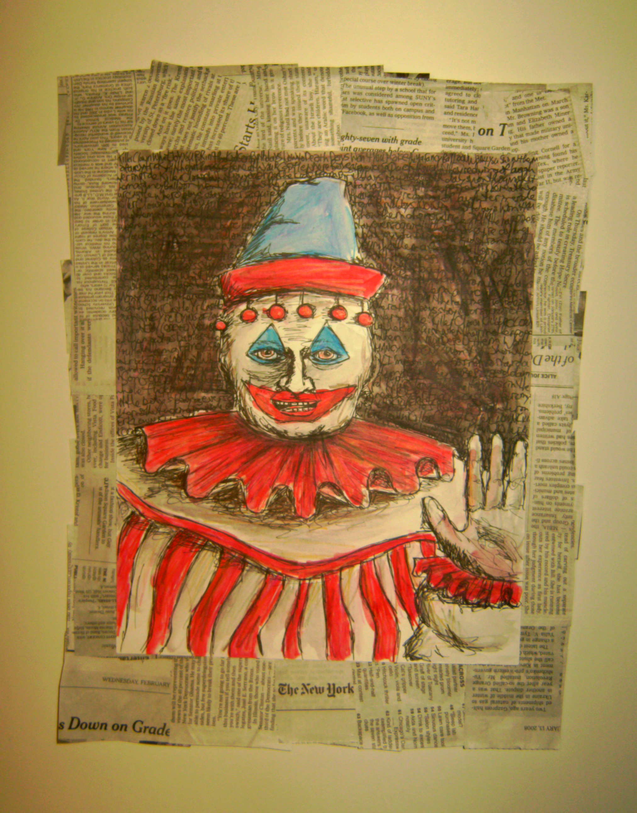 Drawing of a serial killer John Wayne Gacy